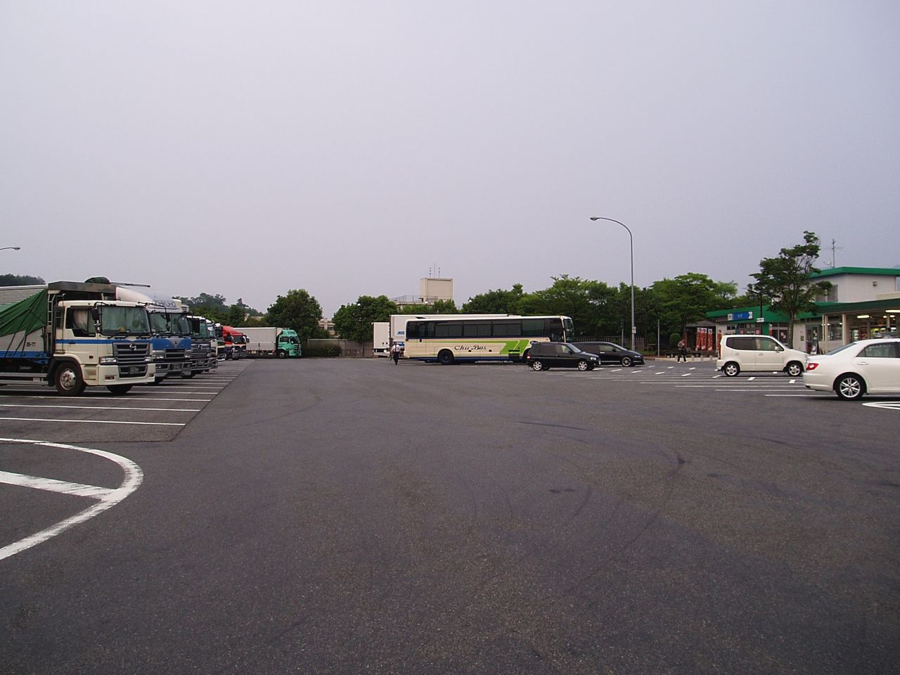 Numata Perking Area on the Sanyo Expressway inbound line for Kobe